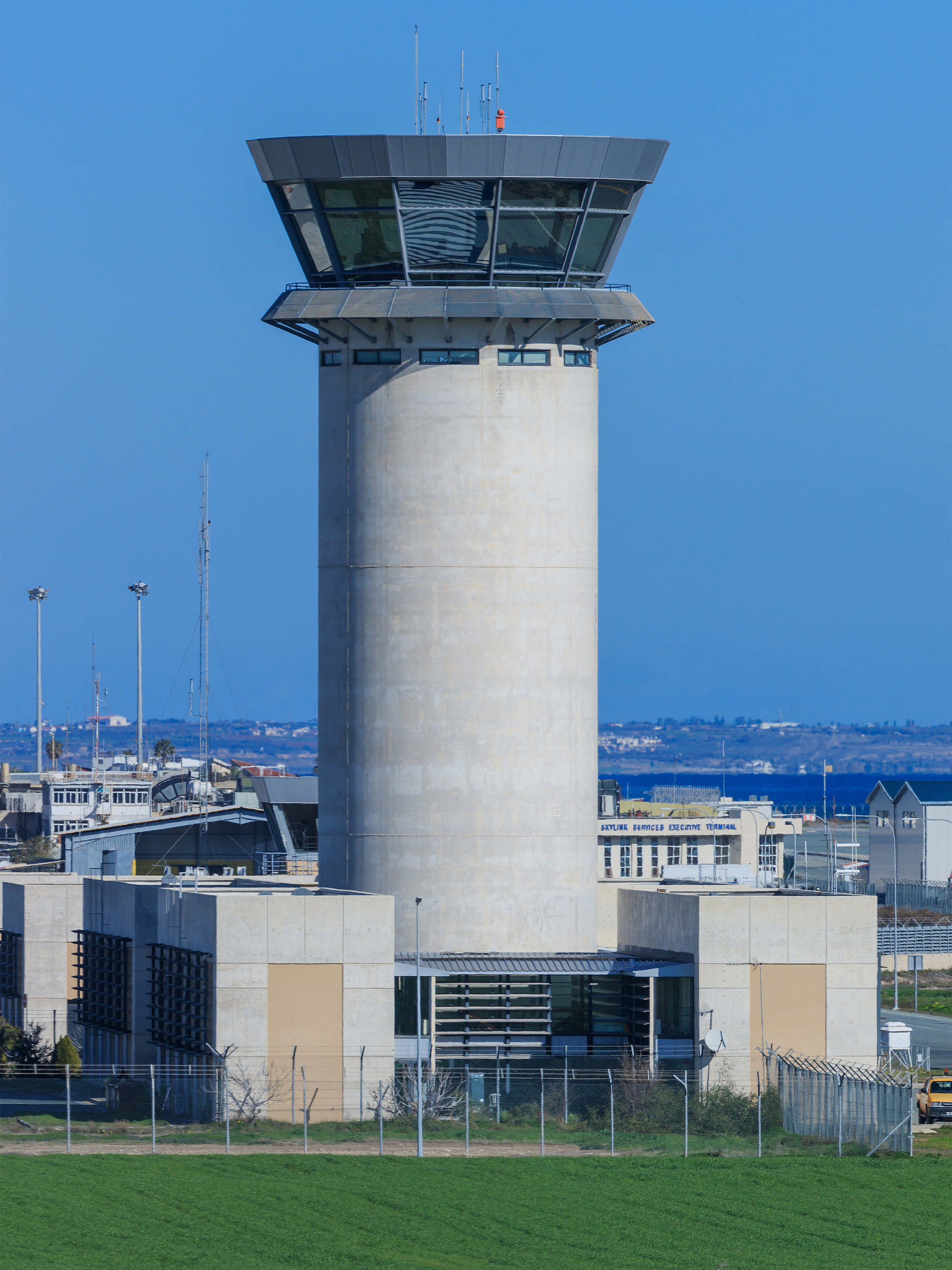 Larnaca International Airport, Cyprus: control tower